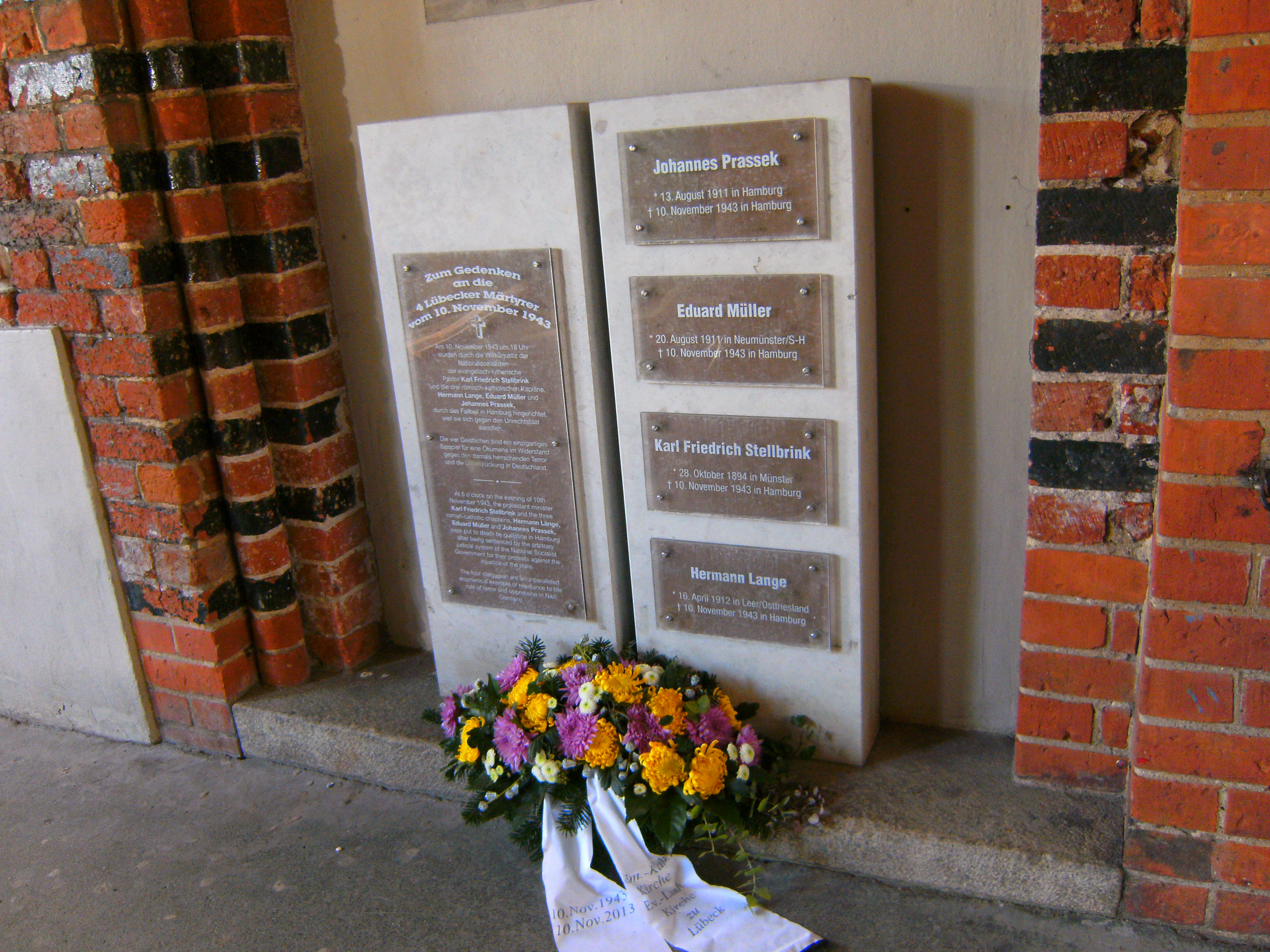 Lübeck: commemorative plaque for the Lübeck martyrs on the wall of the the town hall in the passage from Breite Straße to the cellar of town hall. The Lübeck martyrs were guillotined on November 13, 1943.